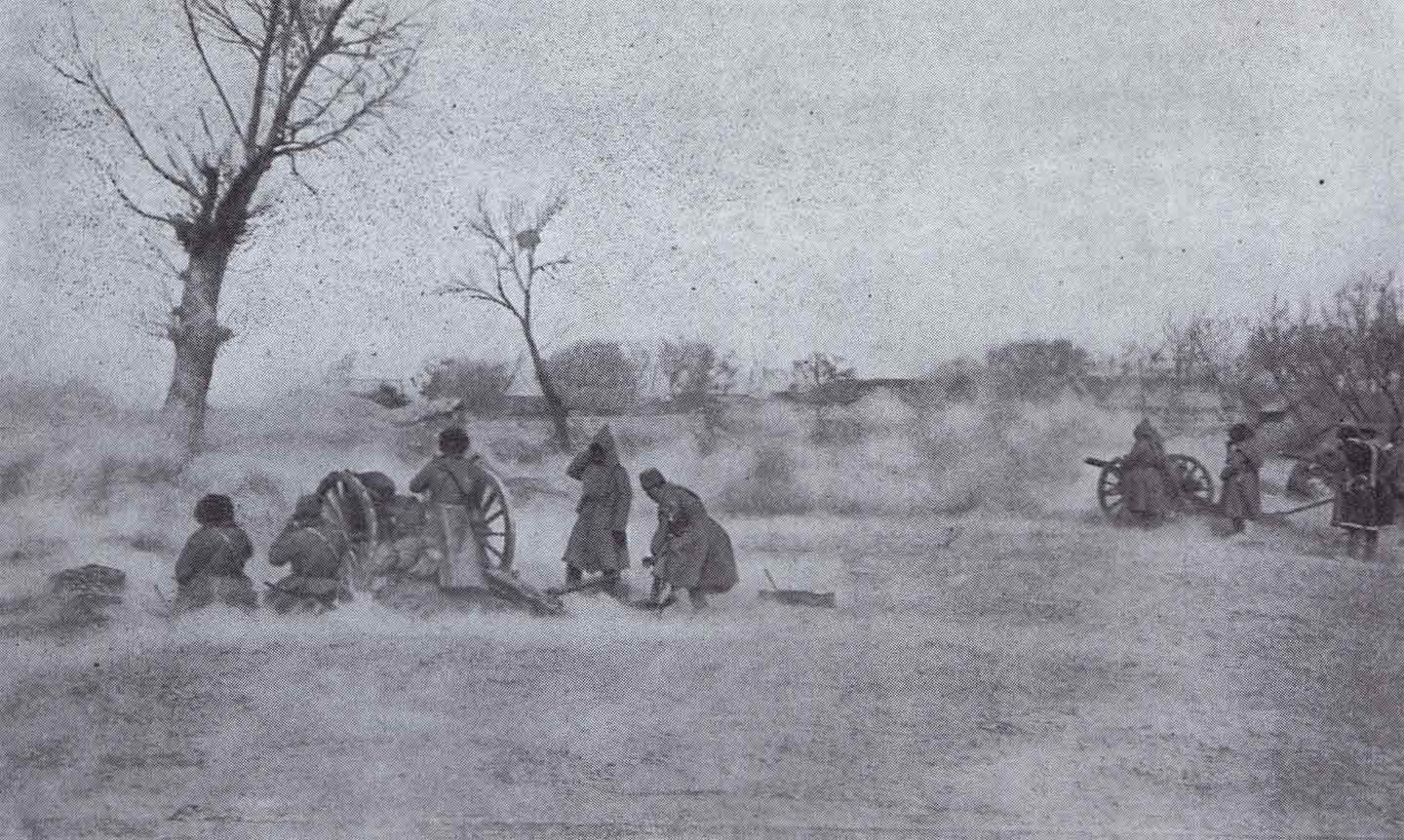 Russian Field Gun during the Battle of Mukden